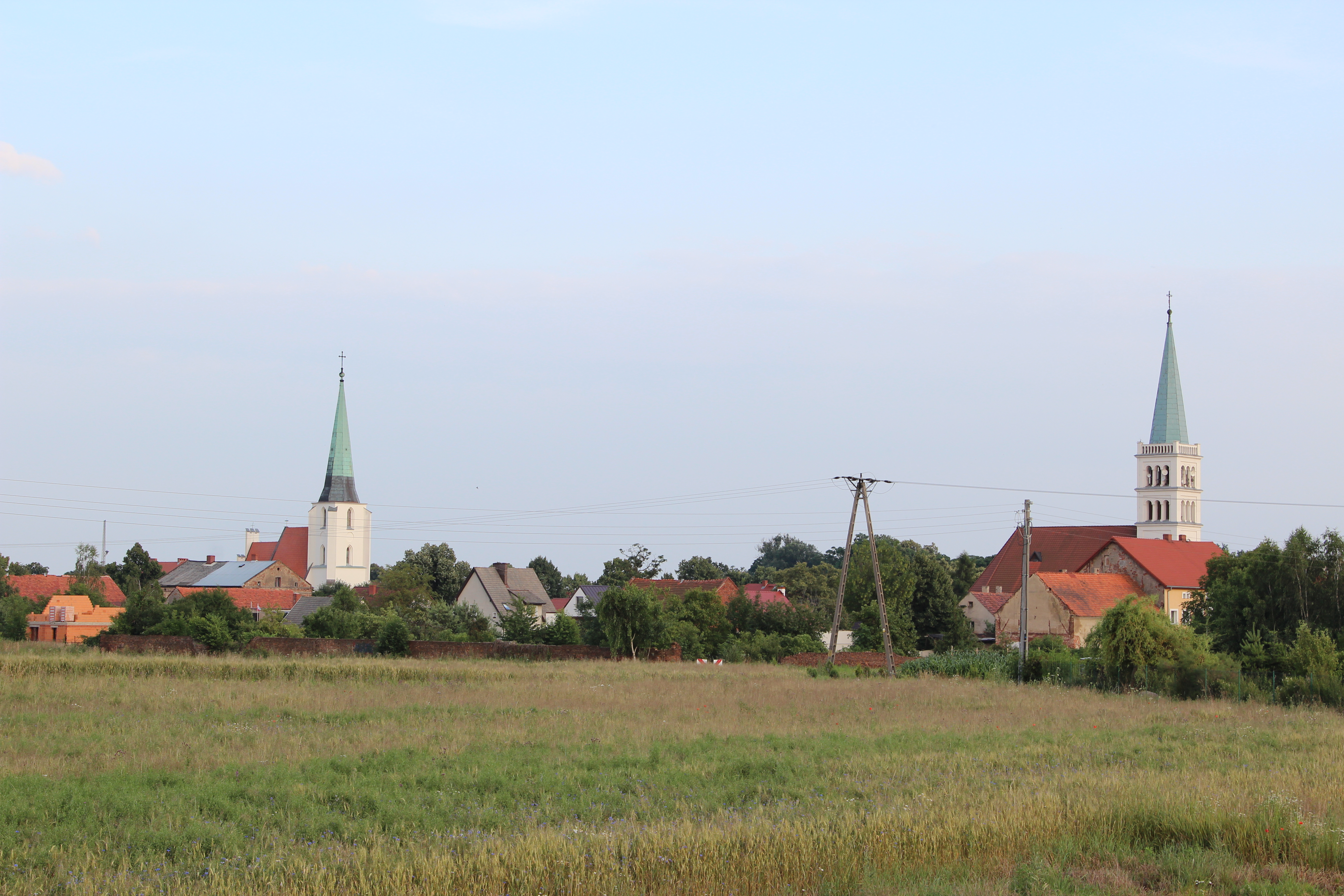 Lutynia, Środa Śląska County, overall view